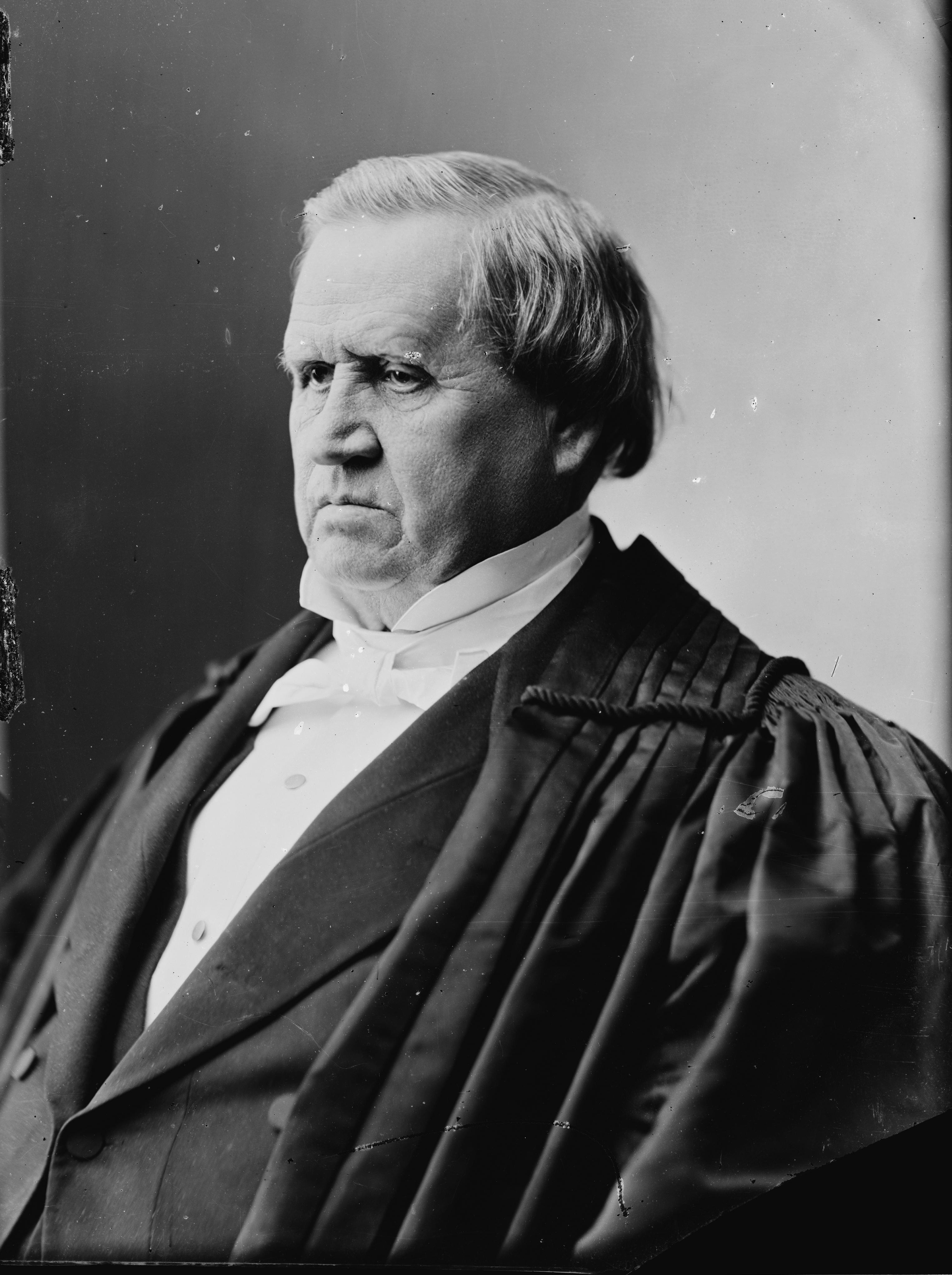 Nathan Clifford. Library of Congress description: "Clifford, Judge Nathan (Supreme Court)"